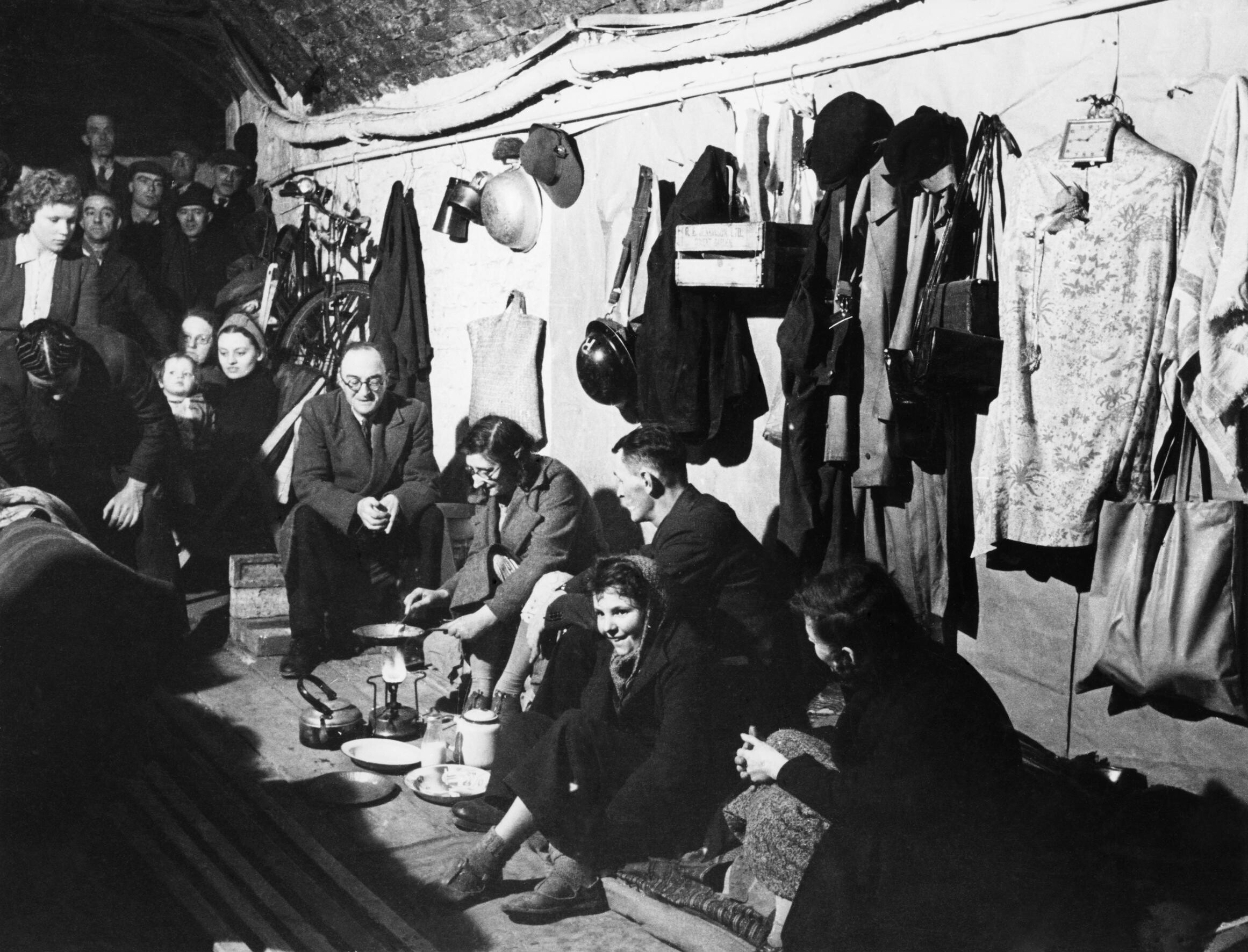 A woman cooks a meal over a Primus stove in a public air raid shelter under railway arches in South East London, 1940. A woman cooks a meal in a frying pan over a Primus stove whilst other shelterers look on in this shelter under the railway arches, somewhere in South East London. Many items of clothing and other personal possessions, including hats and gas mask boxes, have been hung on nails along the whitewashed walls of the shelter. This photograph was probably taken in November 1940.